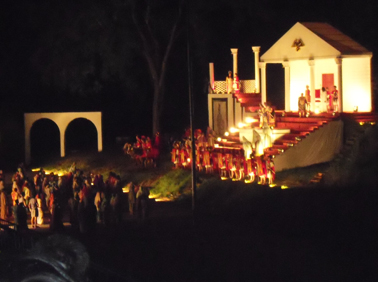 Cena "Paixao de Cristo".